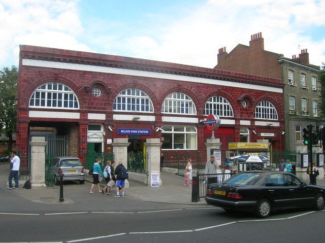 Belsize Park Station